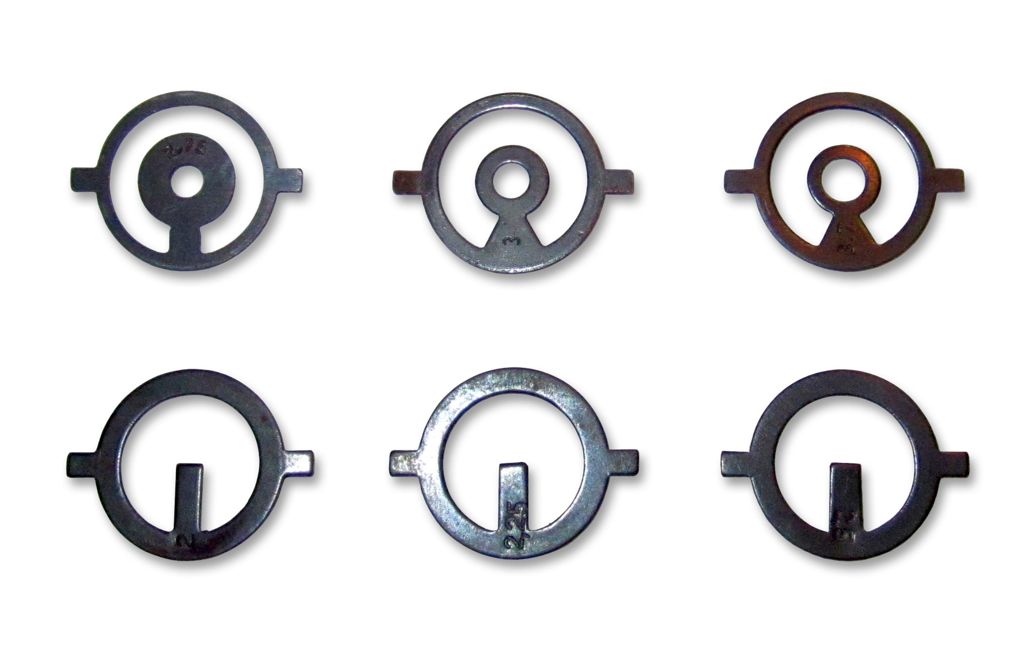 Haenel 312. 4.5 mm (.177) air rifle. VEB Fahrzeug- und Jagdwaffenwerk "Ernst Thälmann" Suhl, East Germany.